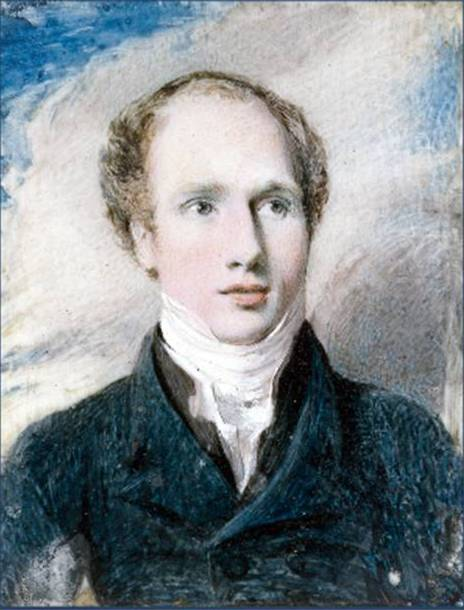 Painting of George Keats by Joseph Severn, for picture in infobox for new page. Painted 1817.